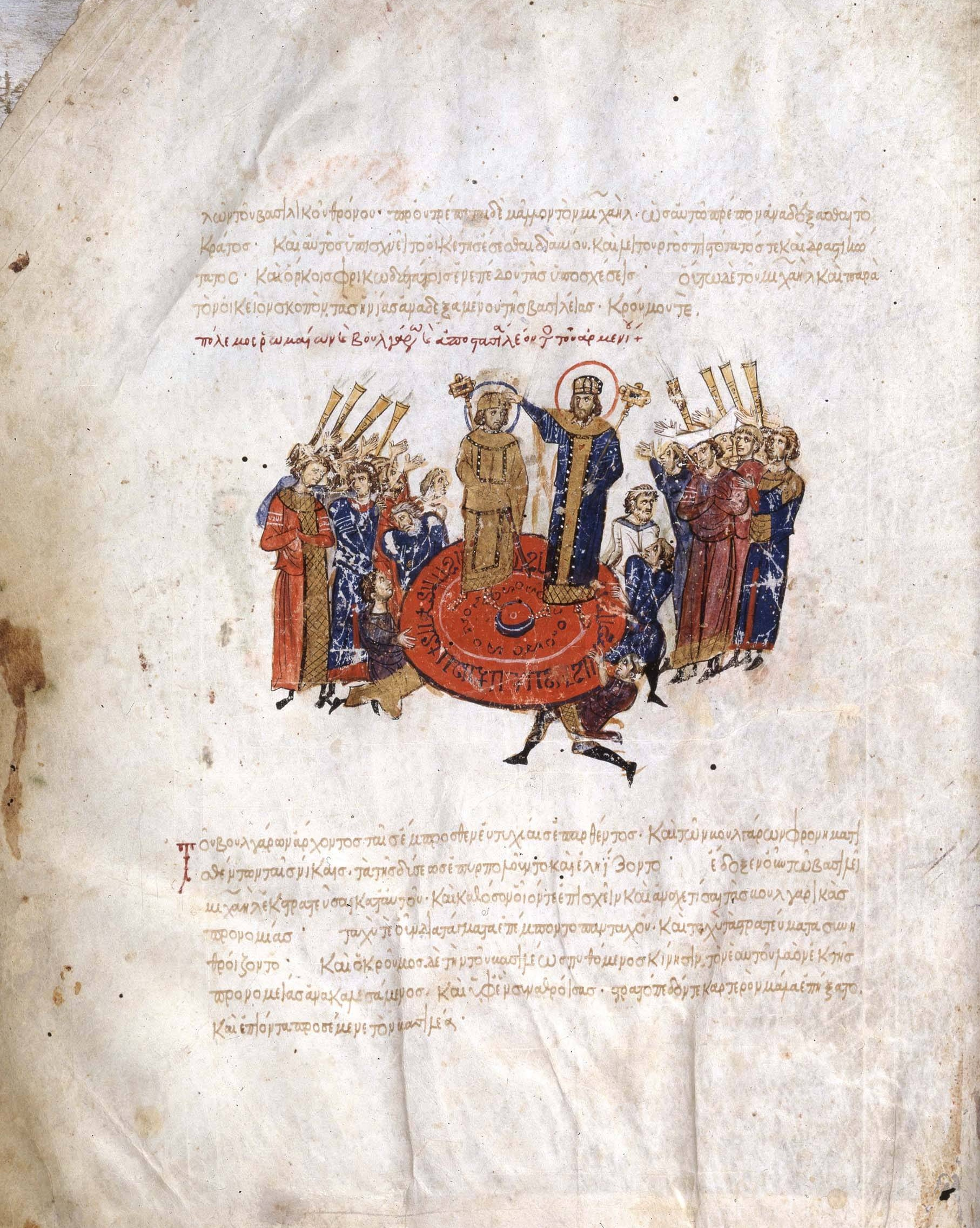 Skyllitzes Matritensis, fol. 10v.